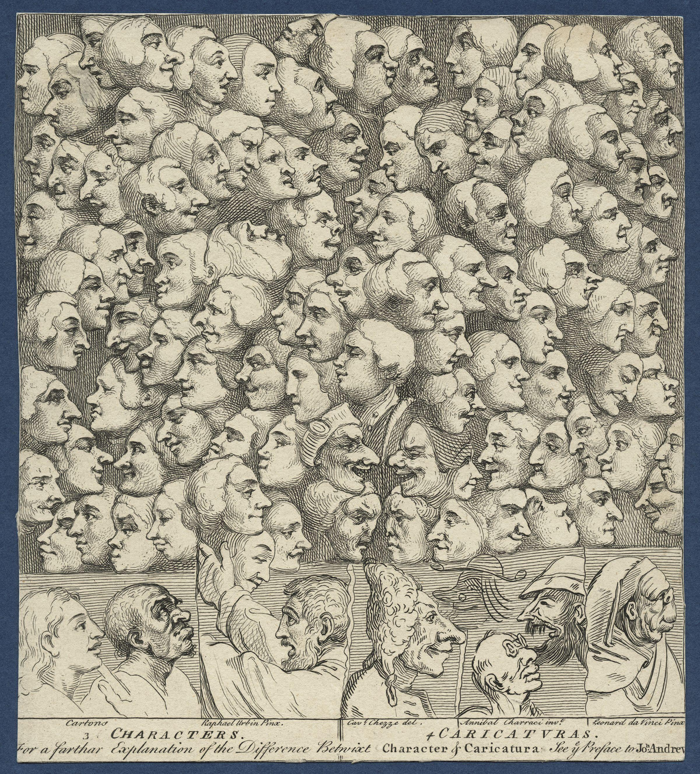 Characters and Caricaturas, by William Hogarth (died 1764). All images in this batch have been confirmed as author died before 1939 according to the official death date listed by the NPG.